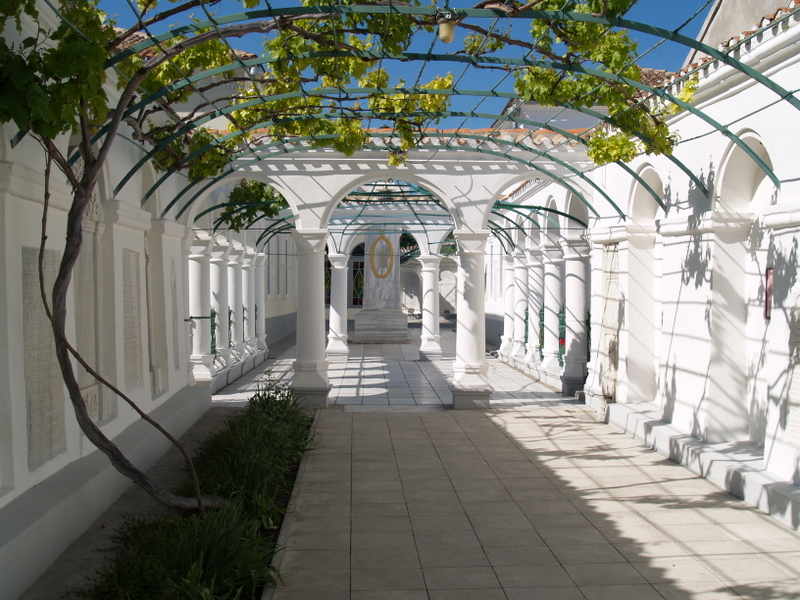 Marble court in Eupatorian Kenassas, Eupatoria, Crimea, Ukraine.